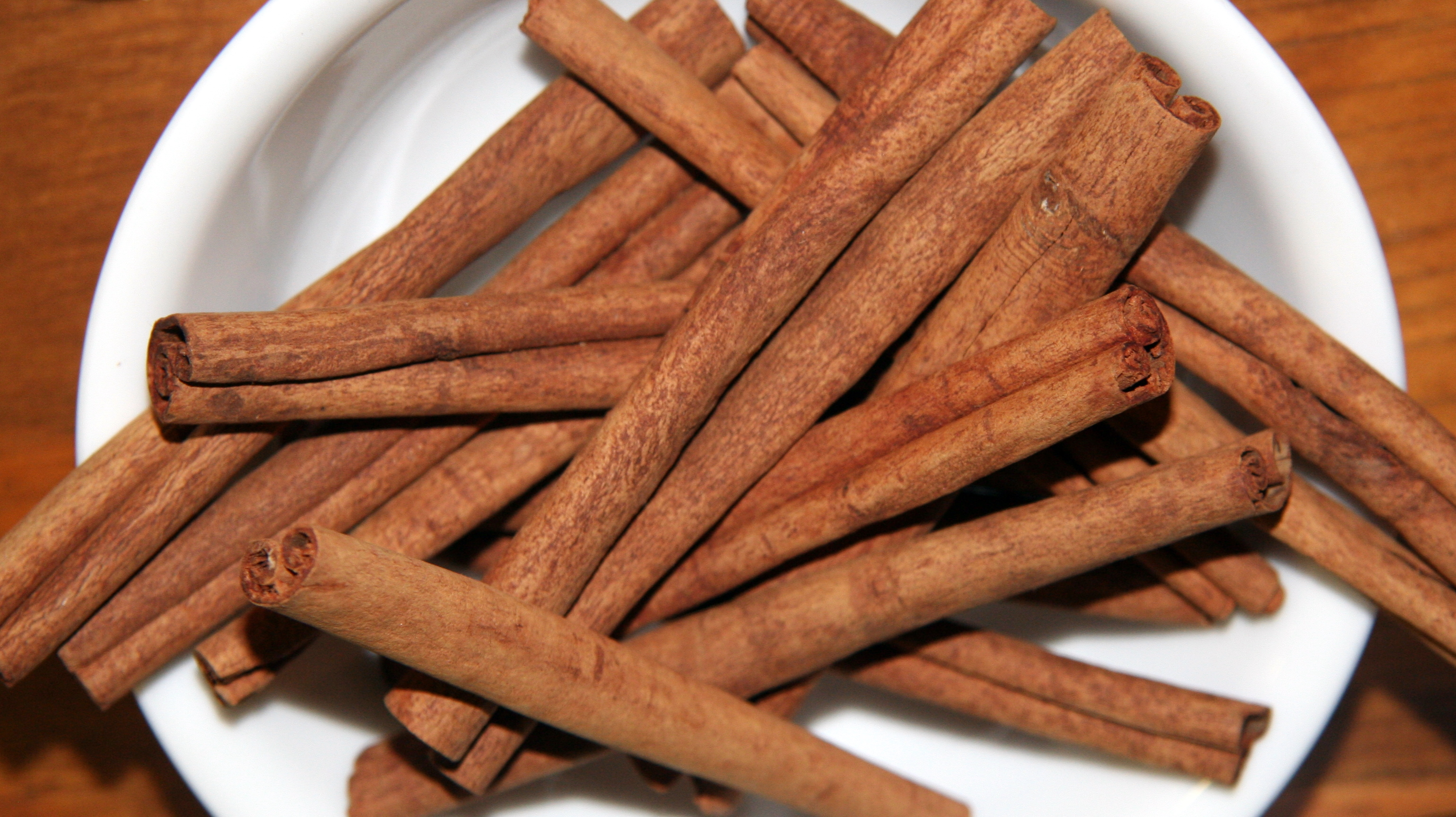 Indonesian cinnamon spice bark (Cinnamomum burmannii) neatly rolled into sticks or quills in a bowl